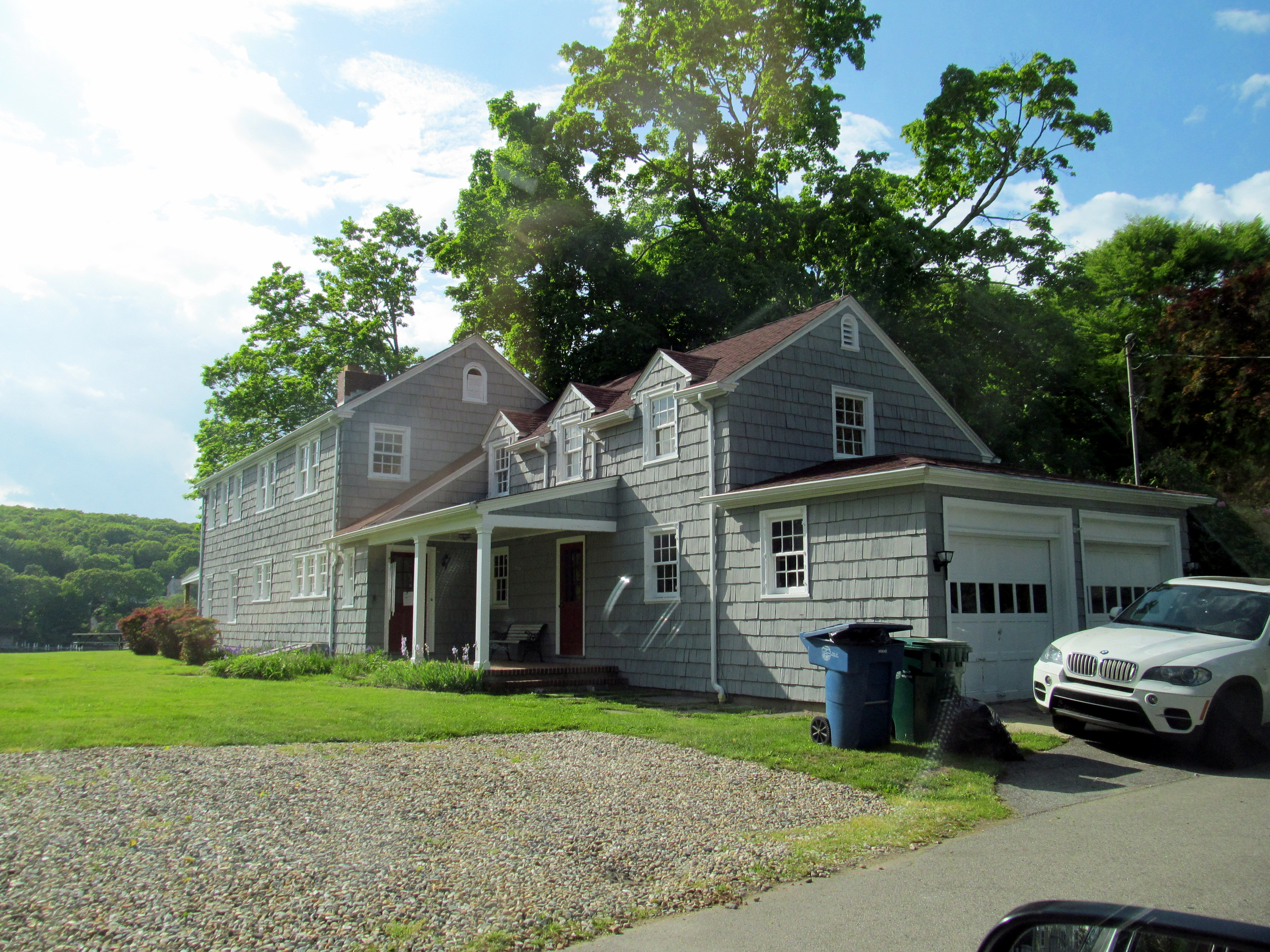 A house on Park Drive in Waterford, Connecticut, typical of the summer homes in the Oswegatchie Historic District